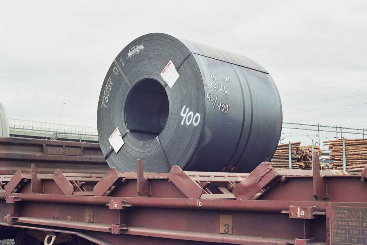 A rolled steel coil (possibly by Rautaruukki) in the VR freight yard at the city of Oulu in Finland.